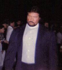 Ted DiBiase at a WWF event in 1995